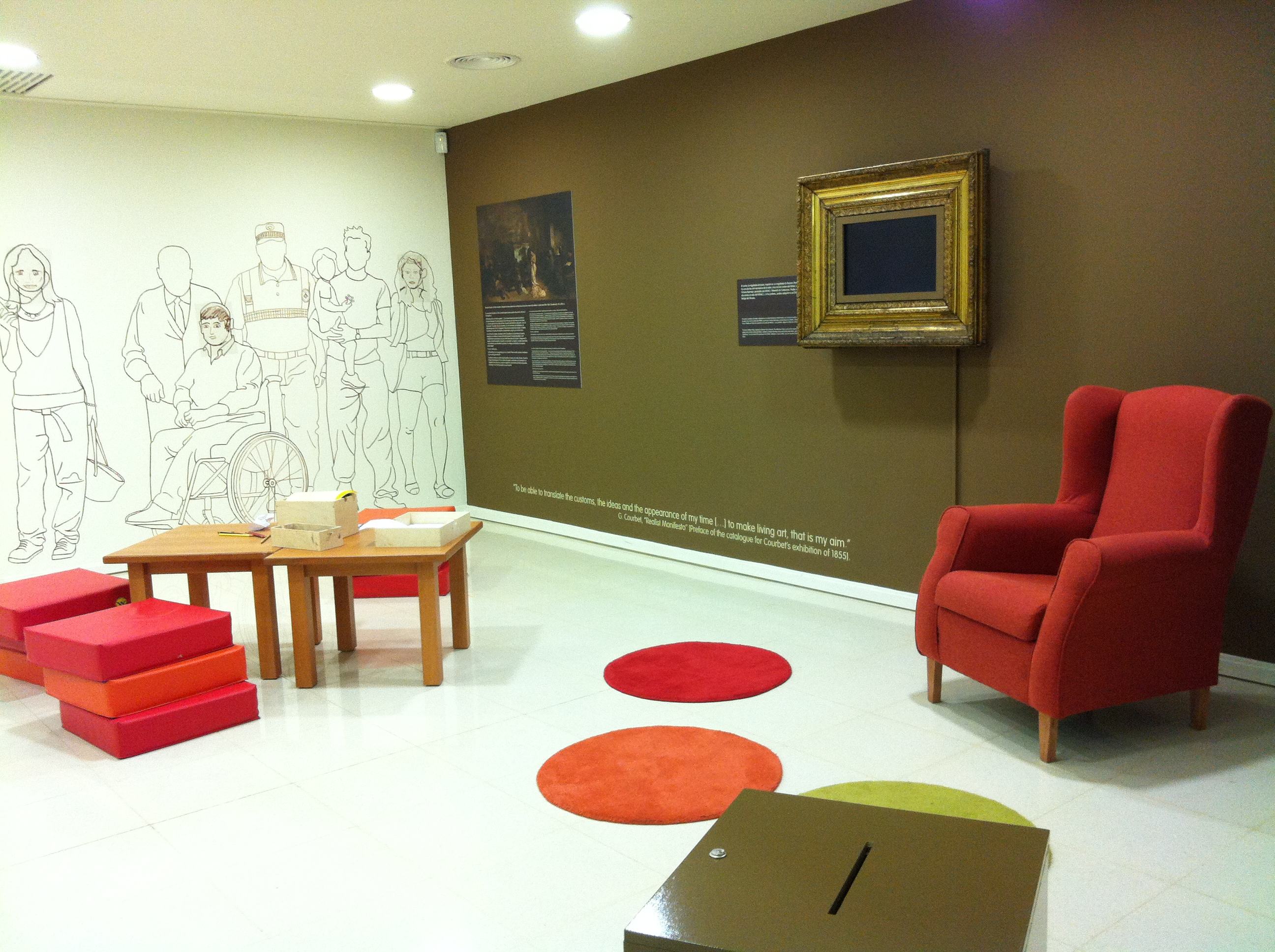 Interior rooms of Museu Nacional d'Art de Catalunya